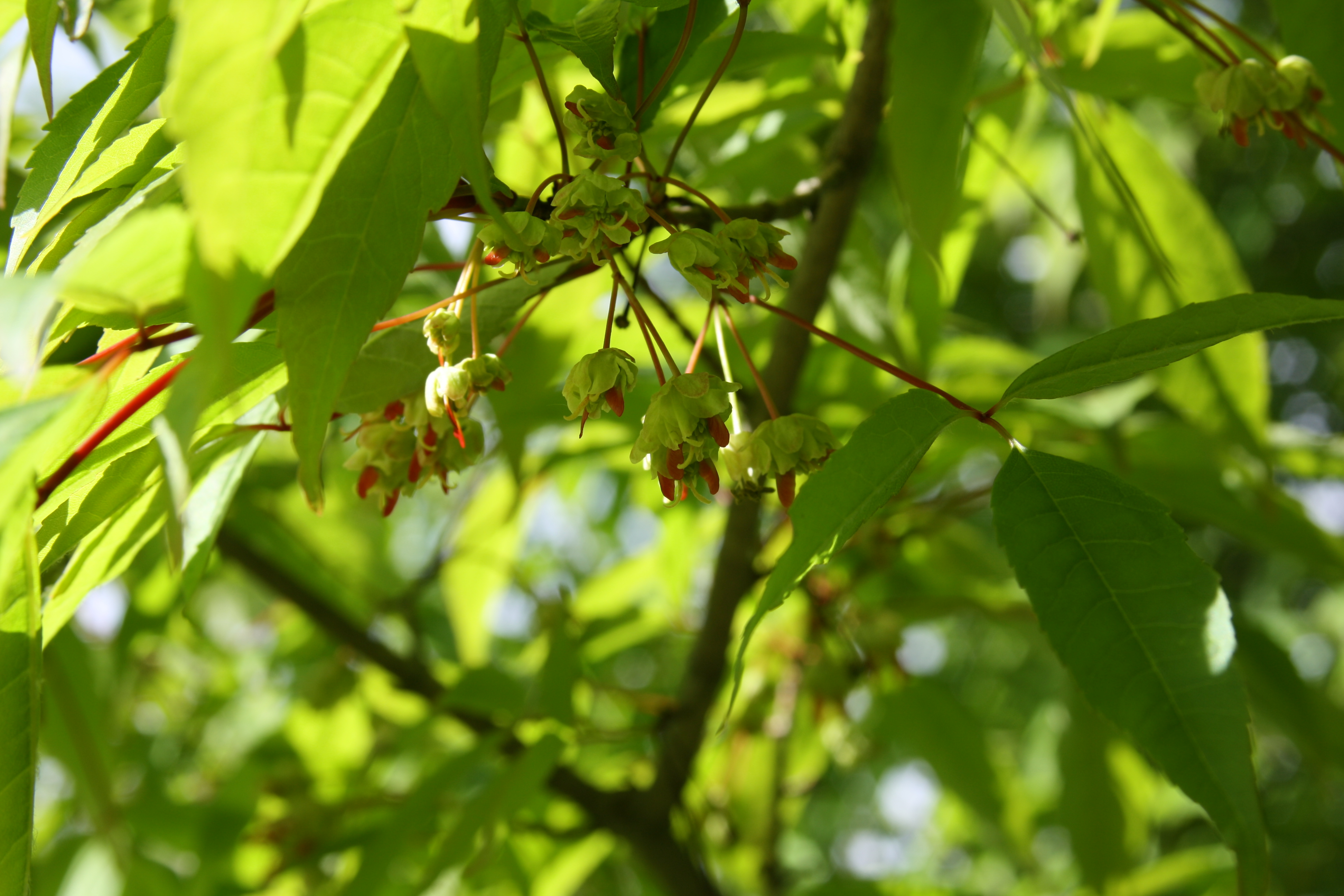 The flowers of the Manchurian Maple (Acer mandshuricum), Botanical garden of Tallinn, Estonia